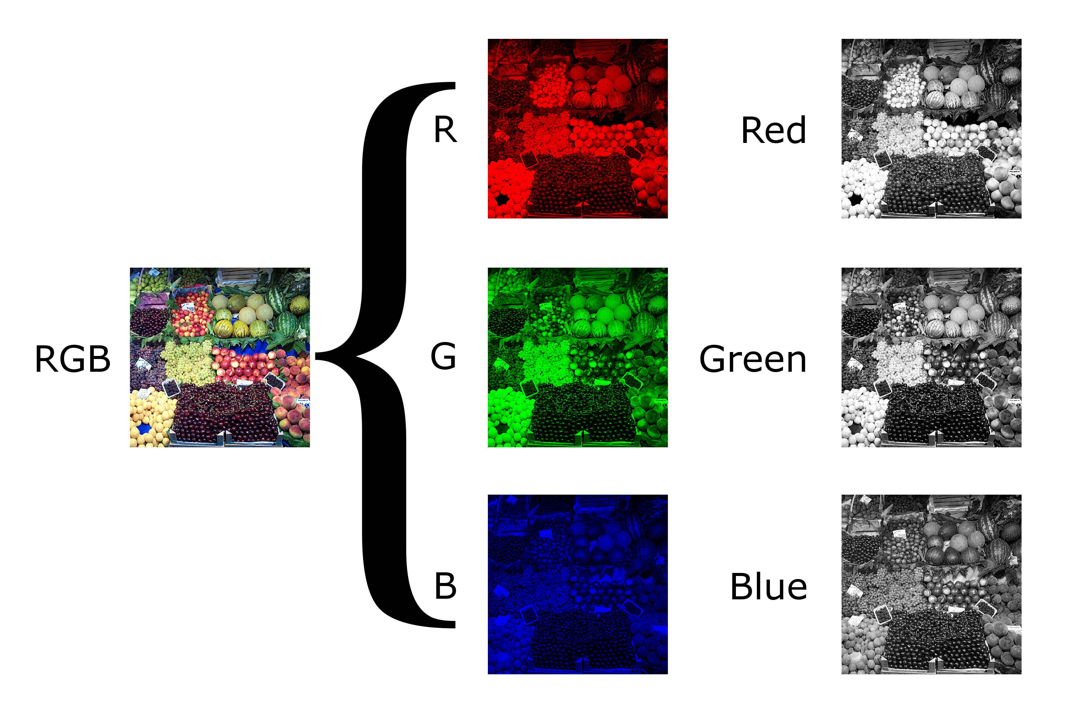 Demonstration of how RGB image split into its three RGB channels. Tricolor, trichromacy, 3x grayscale